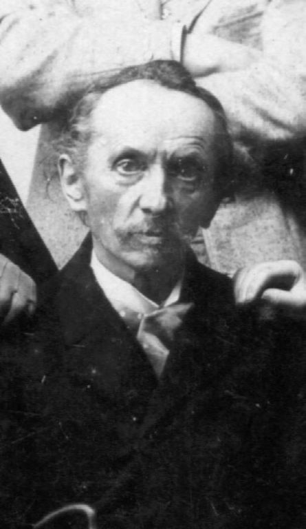 Alois Beer (1833 - 1897), czech writer and painter.